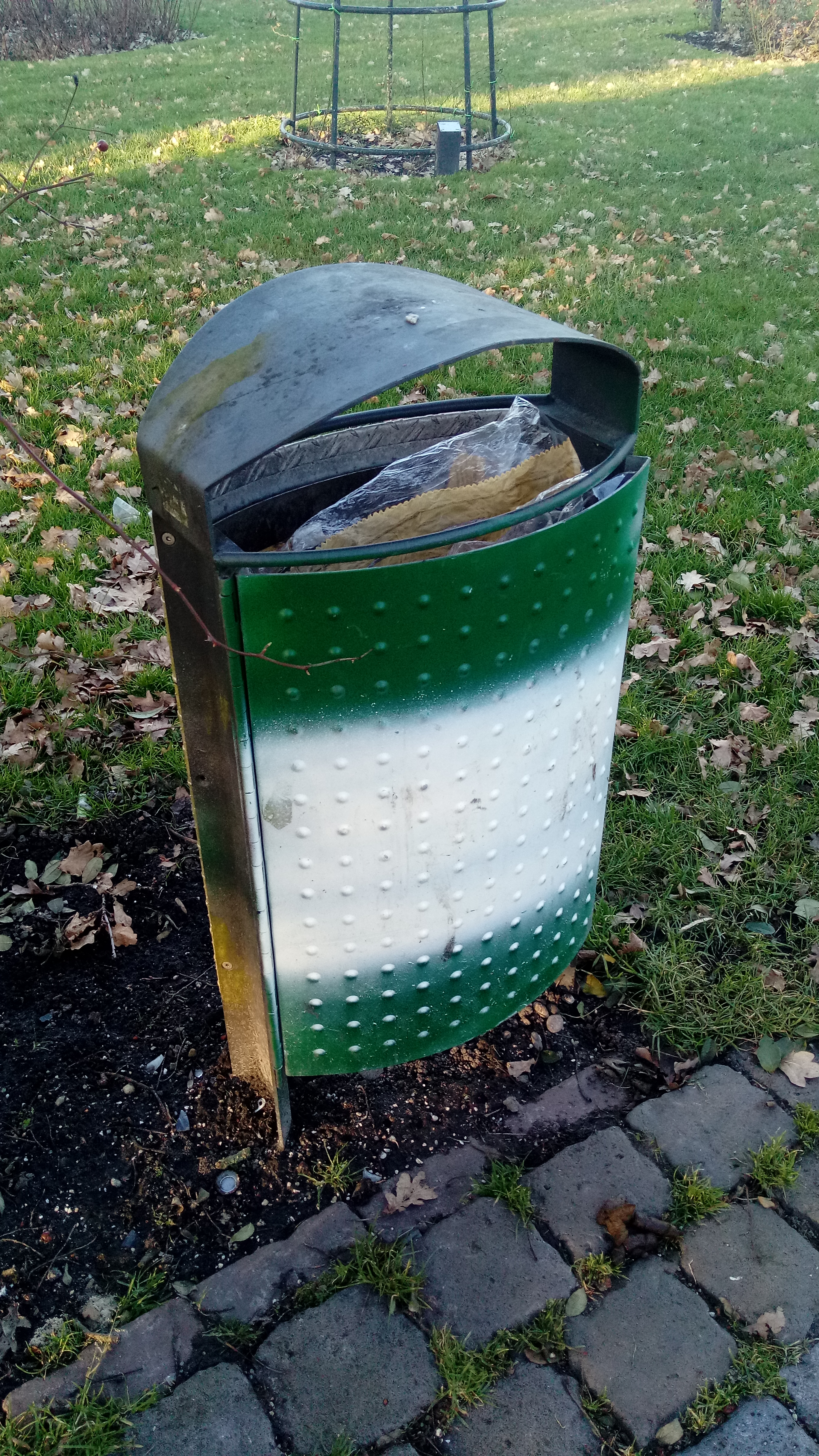 A public rubbish bin vandalised with the flag of the city of Groningen in the Groninger city of Winschoten, Oldambt.